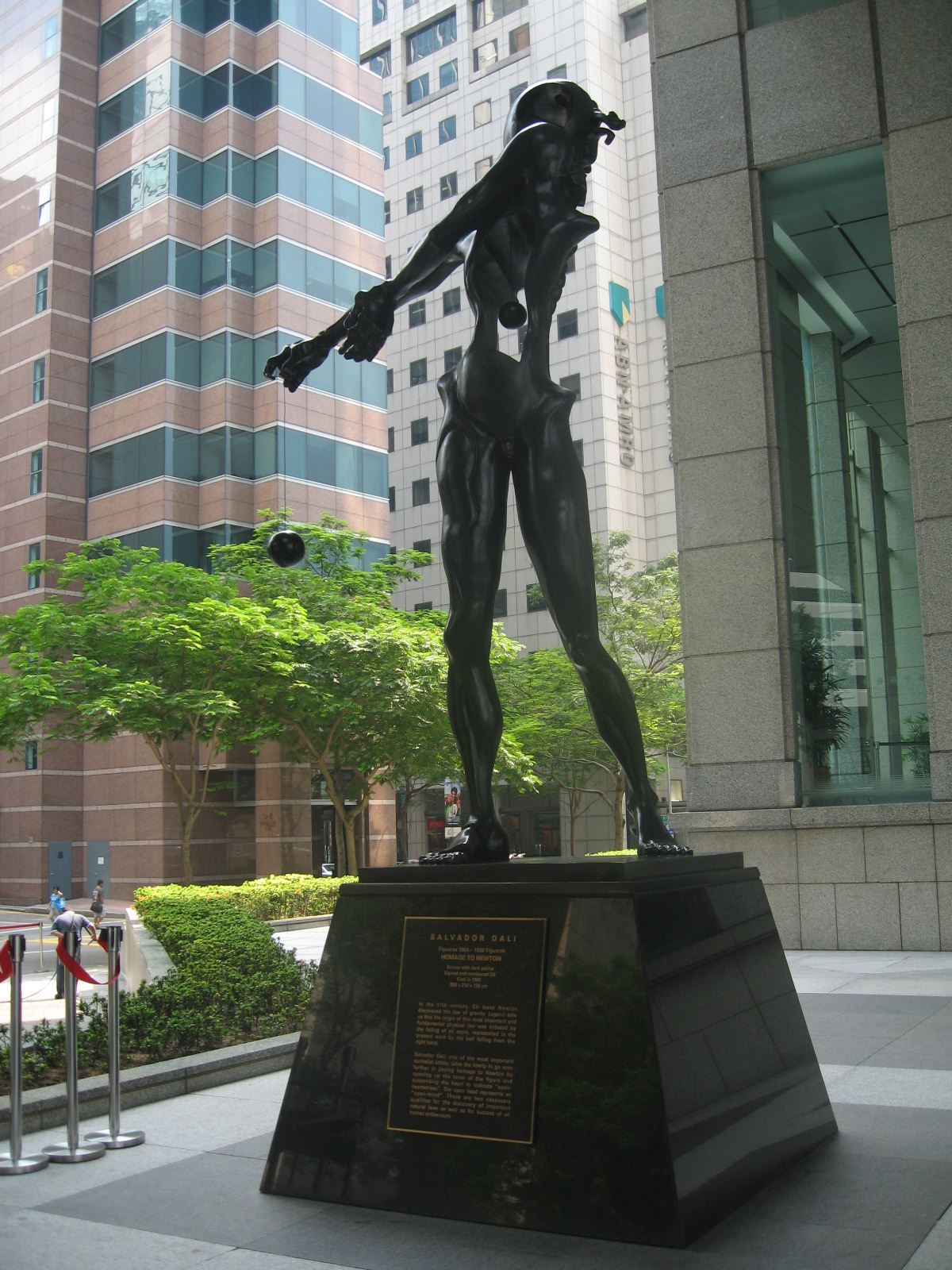 UOB Plaza sculpture by Salvador Dali. Taken by Terence Ong in April 2006.